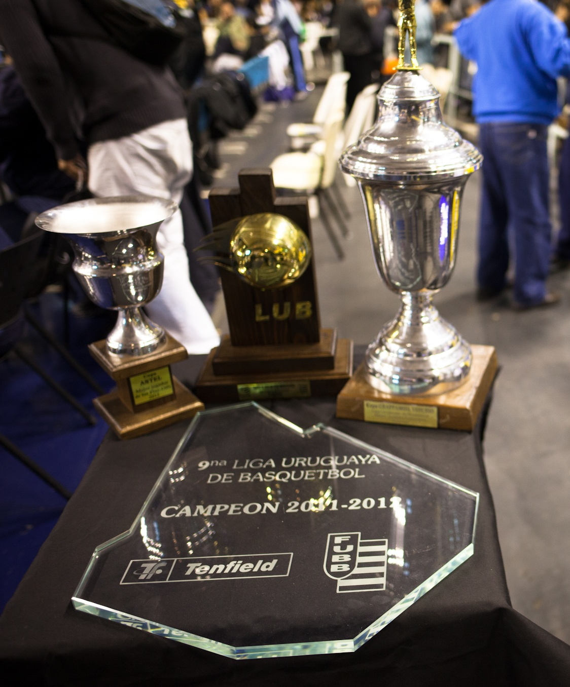 Liga Uruguaya de Basketball (LUB) trophies, at the 2011-12 final between Hebraica y Macabi and Malvin, at the Palacio Peñarol.